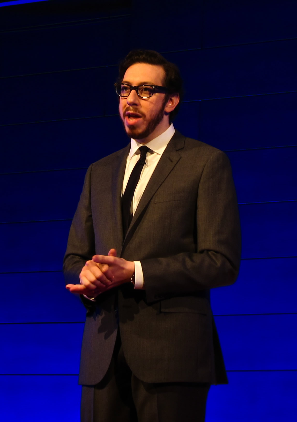 Joshua Topolsky at the Engadget Show on June 23, 2010 in NoHo, New York